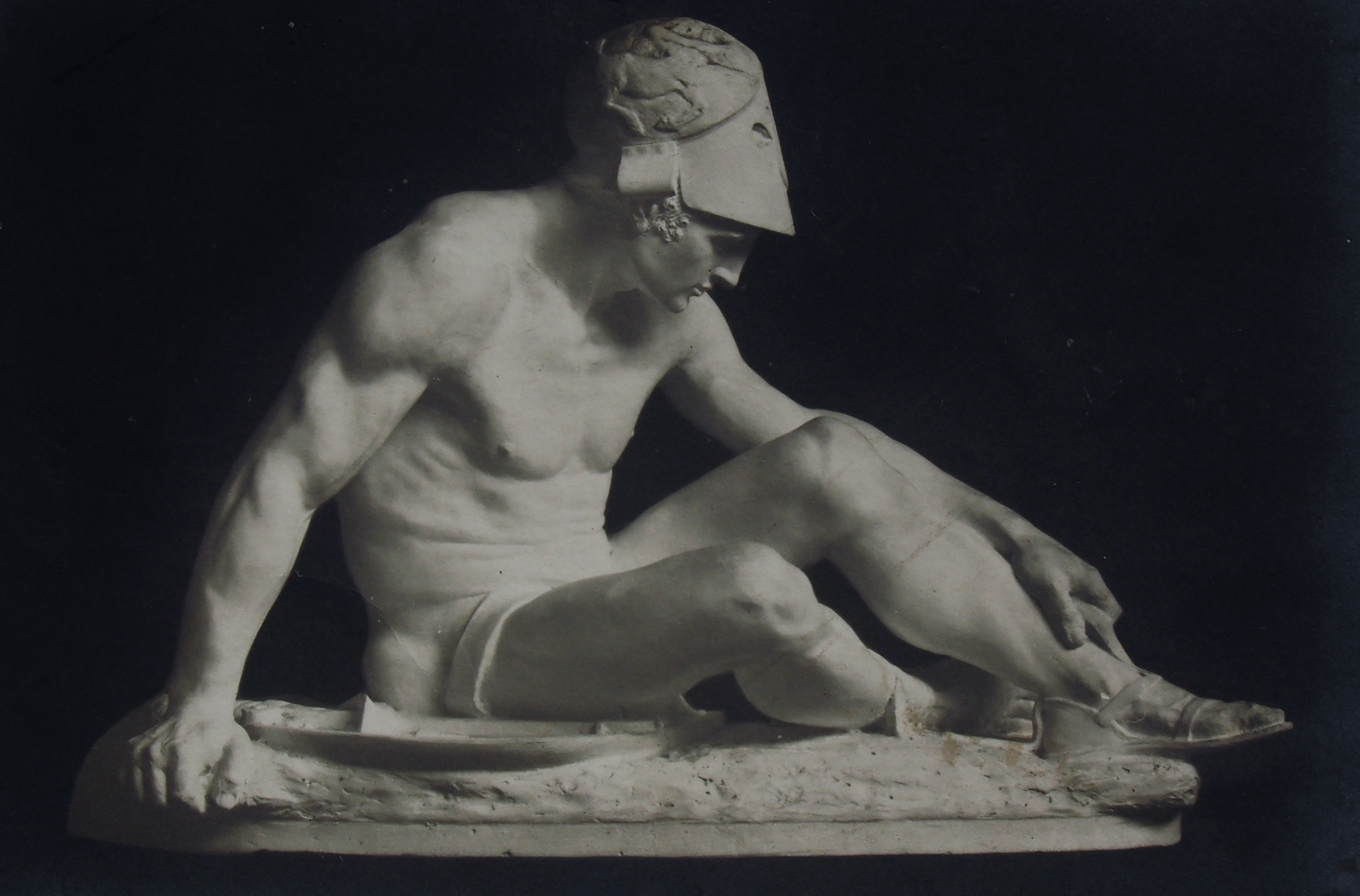 "Achill" by Gustav Wallat